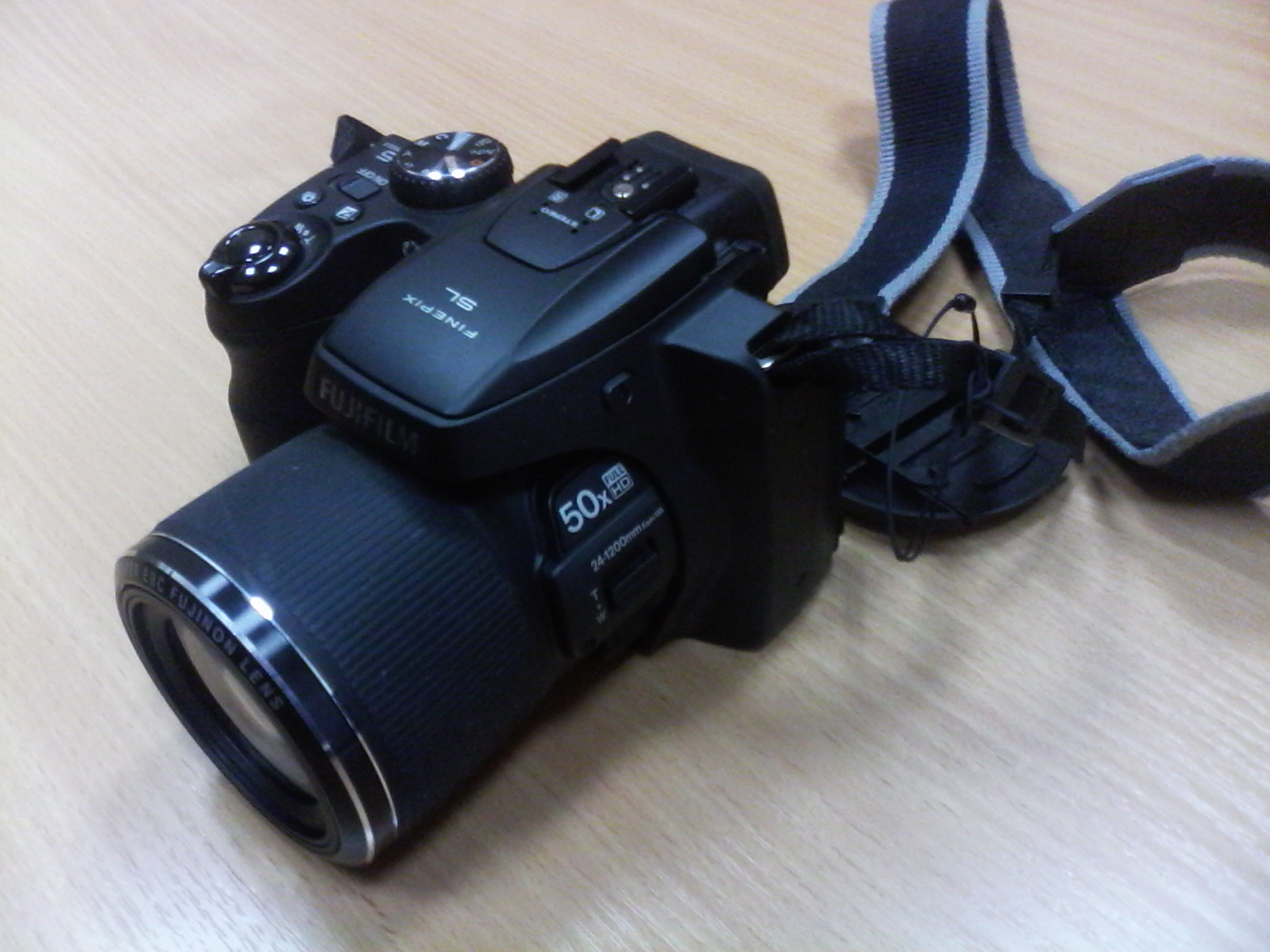 Fuji Fine Pix SL 1000